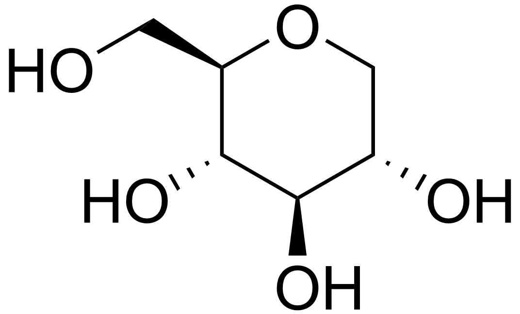 Chemical structure of 1,5-anhydroglucitol (1-deoxyglucose; 1-deoxy-D-glucose; 1-deoxy-D-glucopyranose